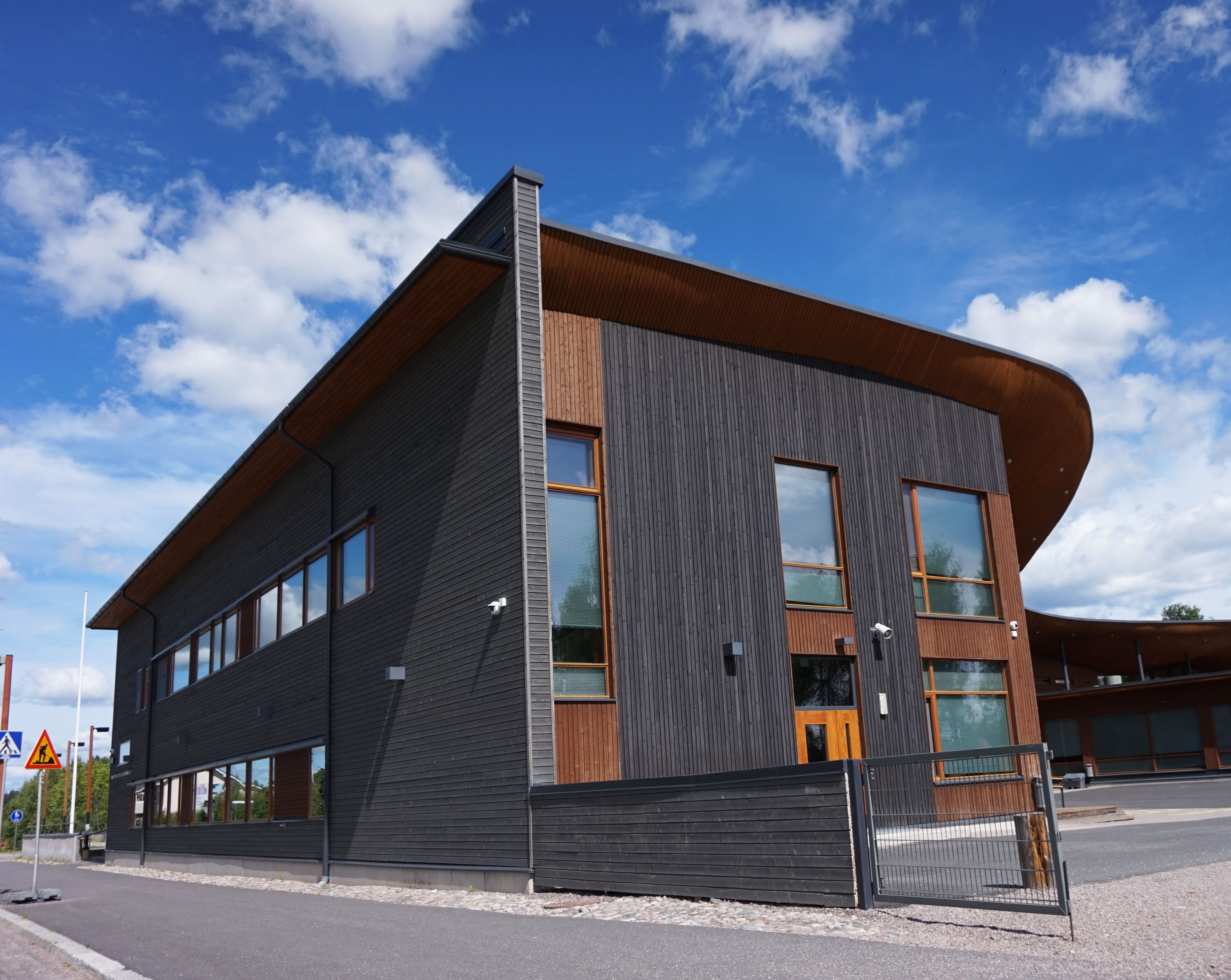 Karisto school in Lahti, Finland.This photograph was taken with a Sony ILCE-5000